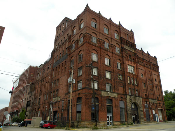 Picture of the former Duquesne Brewing Company's building at Mary and 21st Streets in the South Side Flats neighborhood of Pittsburgh, Pennsylvania, on August 14, 2010. The building, which was built in 1899, is currently the home of an artist collective called the Brew House Association.